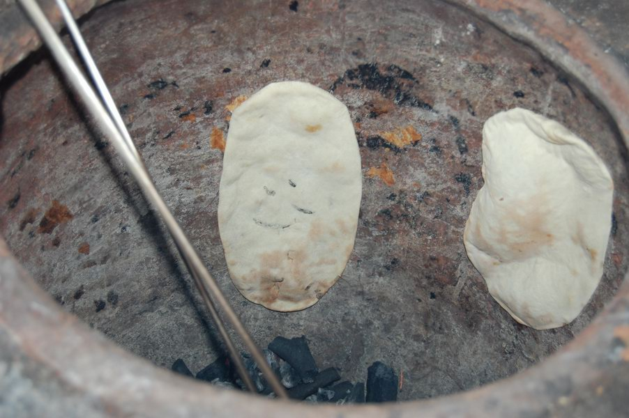 Chapati